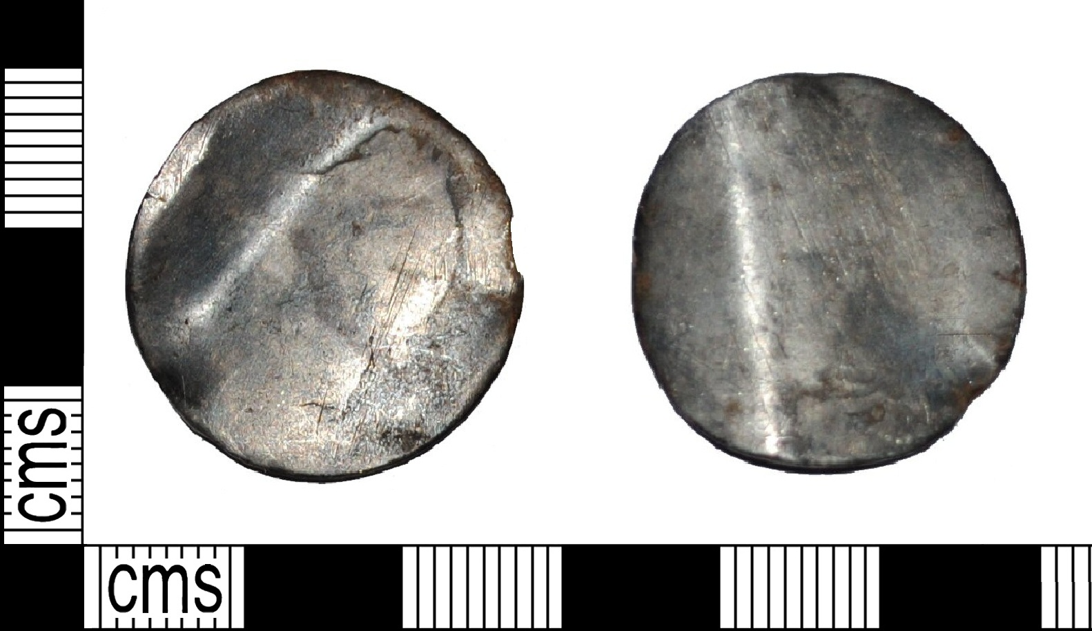 A worn and folded silver shilling of James II, dating 1685 to 1688AD. It has been folded twice, probably for use as a love token. The custom of giving bent coins as love tokens was at its height in the reign of William III and they are usually found in reasonable numbers on old fair sites. The diameter is 25mm.